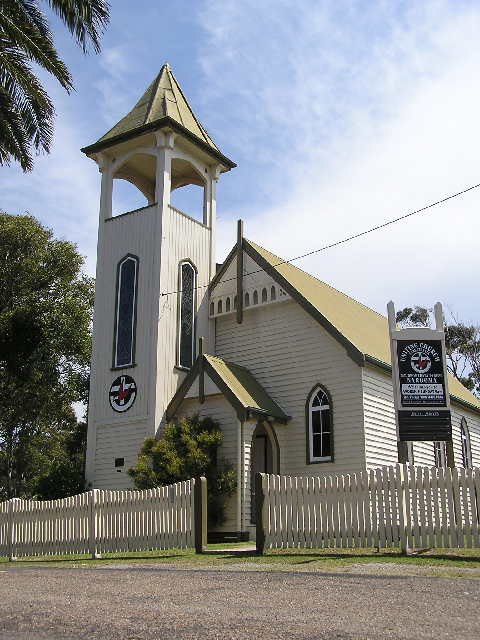 Narooma, New South Wales Uniting (formerly Methodist) Church on the Princes Highway dates from 1914. It is regarded as an excellent example of the Australian Federation Carpenter Gothic architectural style. Picture by AYArktos